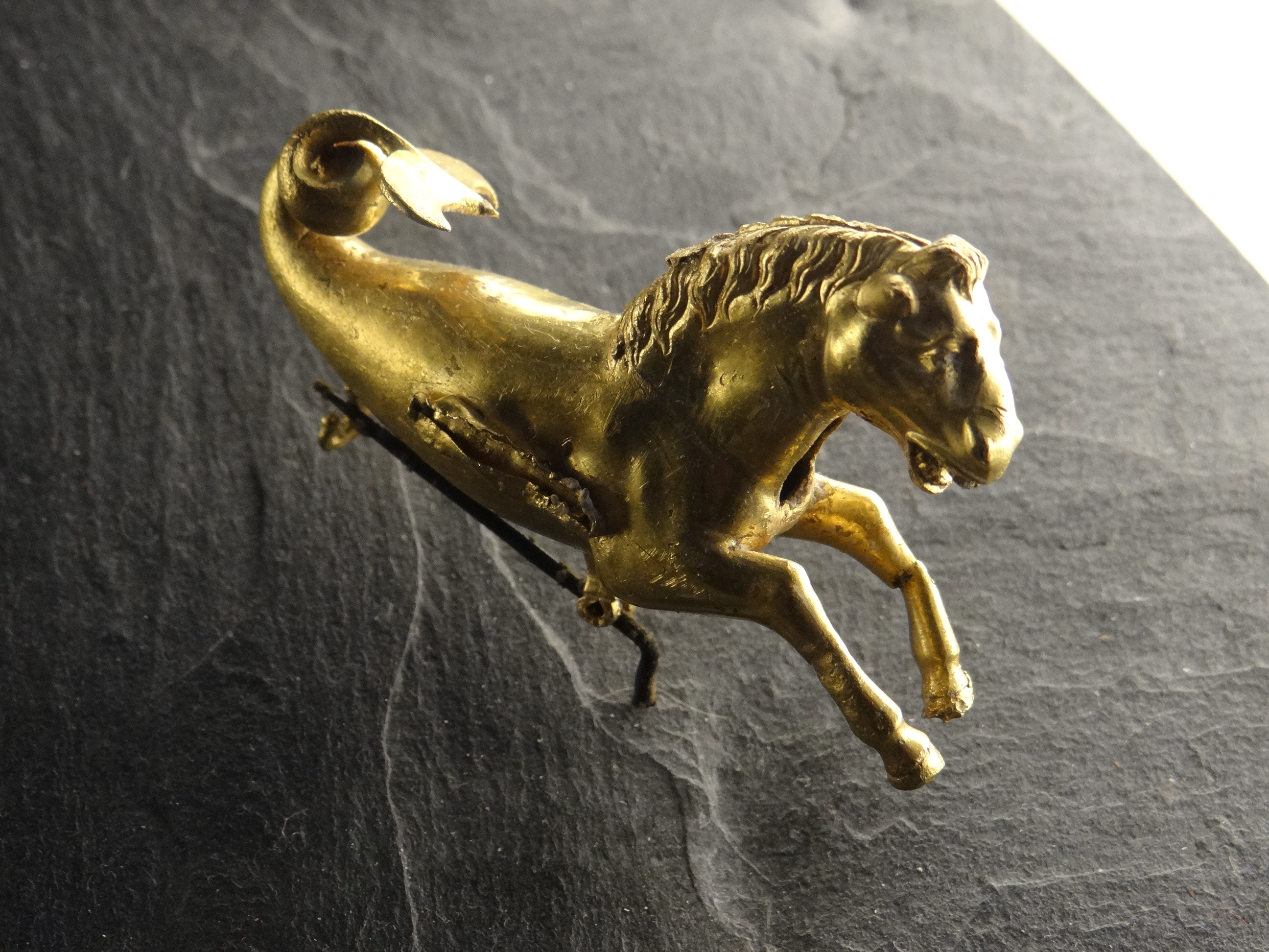 Fibula in the shape of a marine horse, from Sour (ancient Tyre), Lebanon.